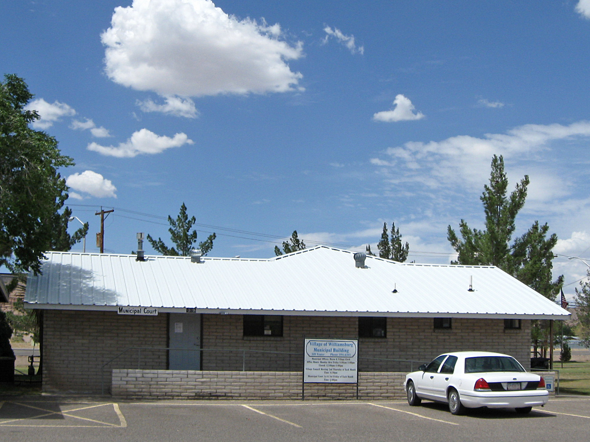 Williamsburg (New Mexico) Municipal Building, located at 309 Veater Street in Williamsburg, New Mexico